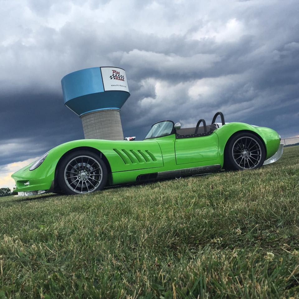 Lucra lc470